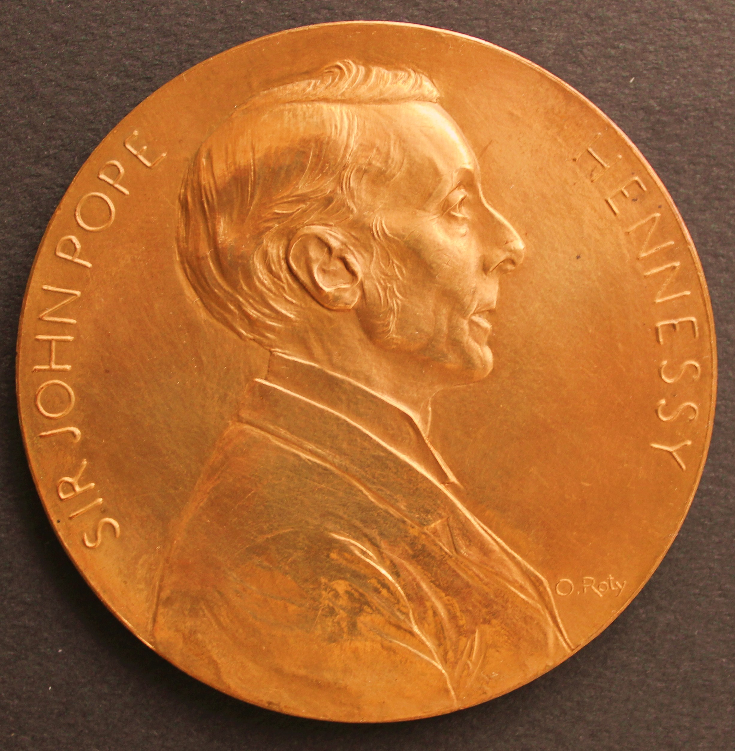 Sire John Pope Hennessy (1834-1891) Governor of Mauritius from 1 Jun 1883 to 11 Dec 1889, bronze medal by Louis-Oscar Roty